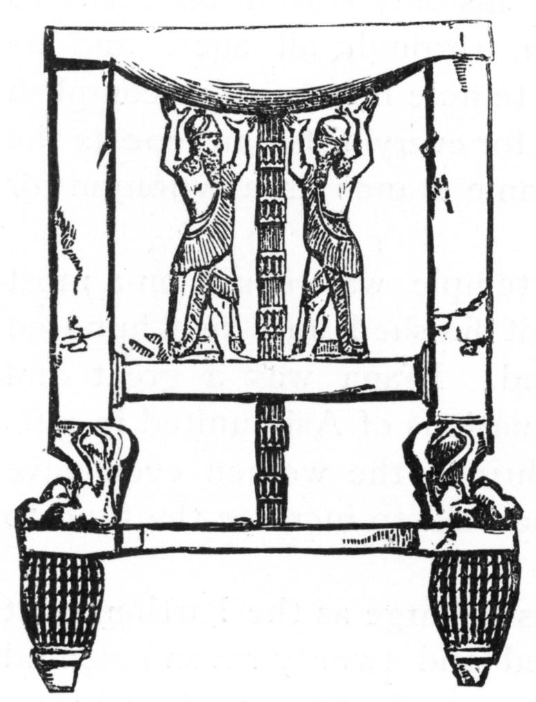 See the "List of illustrations" images (4 pages) in this book's category. The images are numbered in the order they appear in the book.